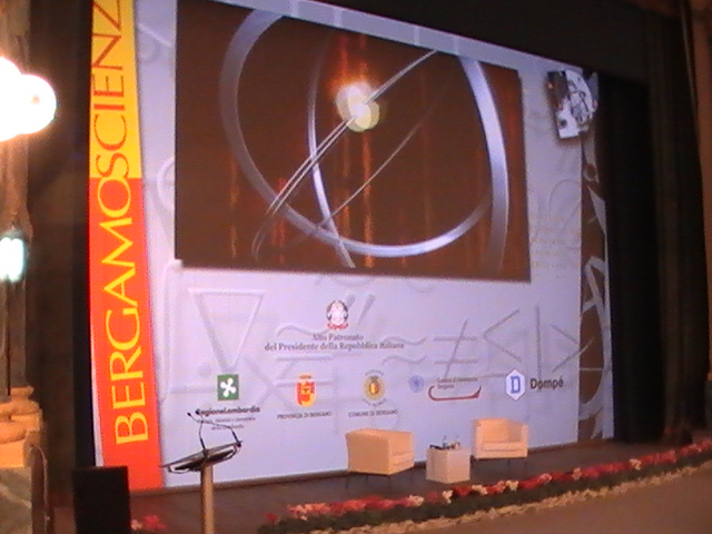 Stage of the "Teatro Sociale" in Bergamo which hosted Jimmy Wales's conference "Wikipedia: the free encyclopedia" within BergamoScienza festival on sunday, 18th October, 2009.